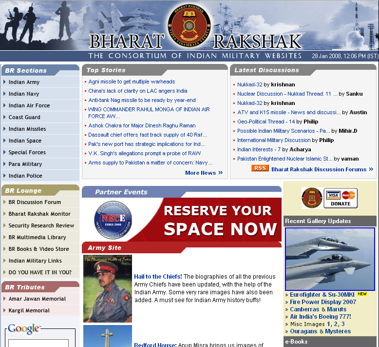 Screenshot of Bharat Rakshak home page on 28th january 2008.